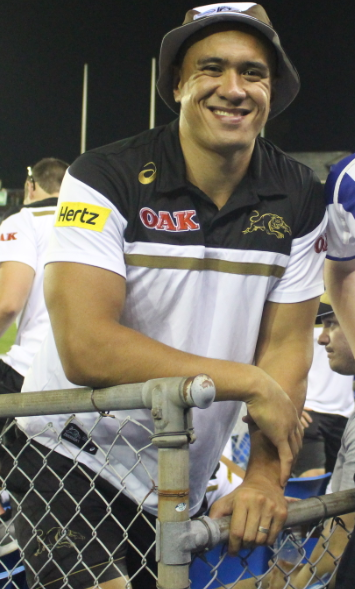 Leilanu Latu with a fan after watching his team's trial match against the Bulldogs in 2017.